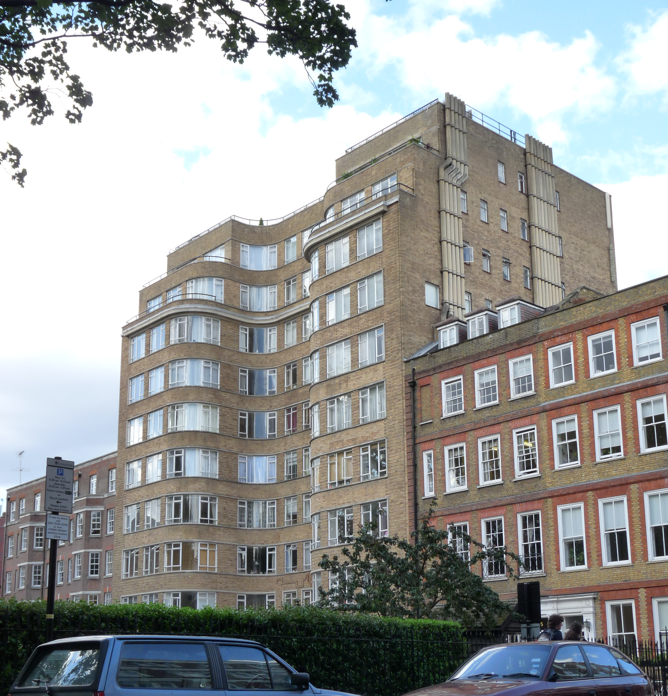 Florin Court, better known as Whitehaven Mansions, the fictional residence of Hercule Poirot, in London, as seen from Charterhouse Street.